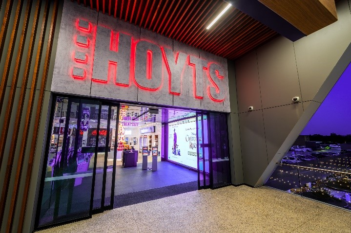 The entrance to HOYTS Green Hills that opened in 2018. The seven-screen cinema has powered recliners in every seat, and in every cinema including two Xtremescreens with Dolby Atmos surround sound and our premium dine-in cinema experience HOYTS LUX.